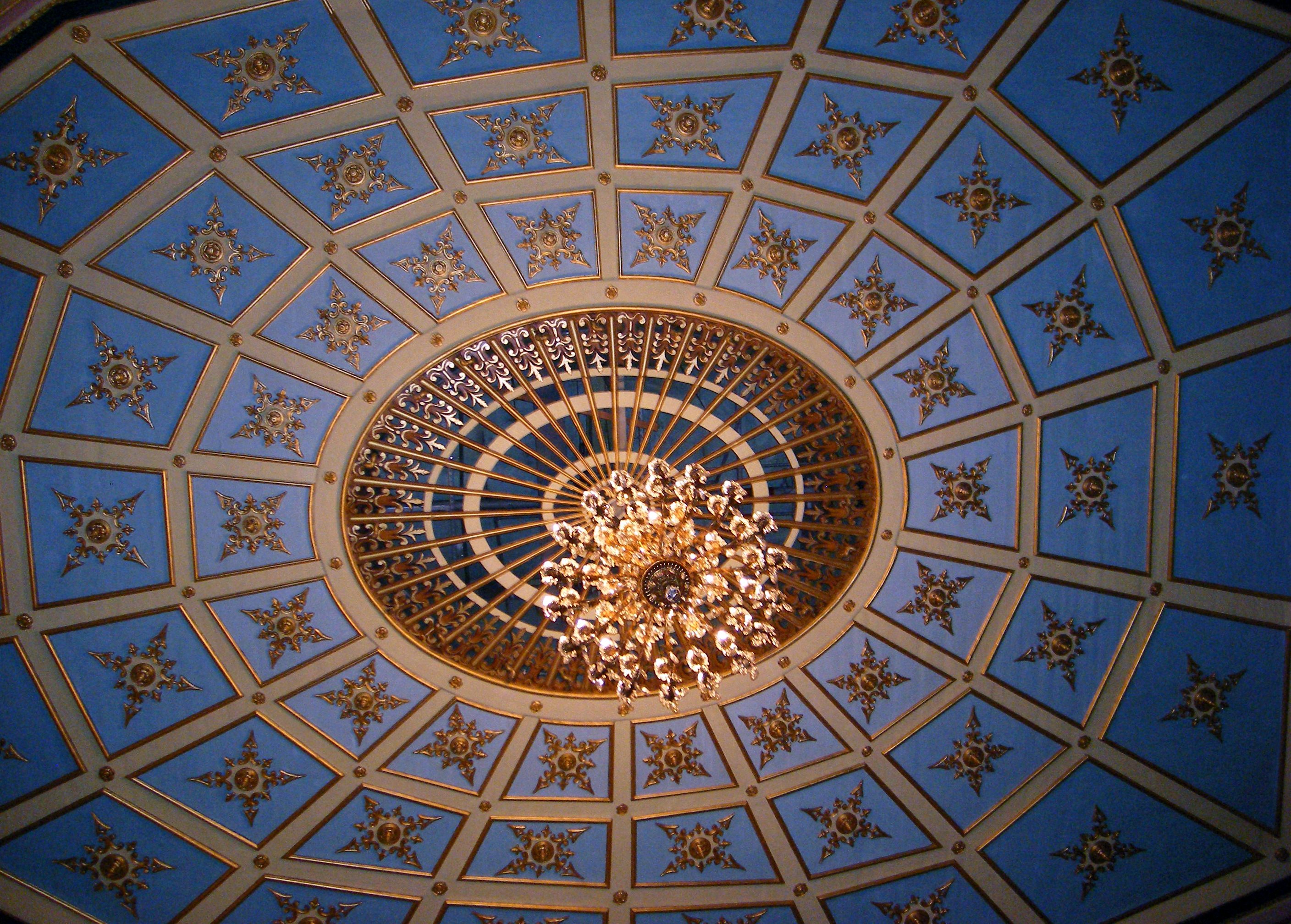 Ceiling of Manoel Theatre in Valletta